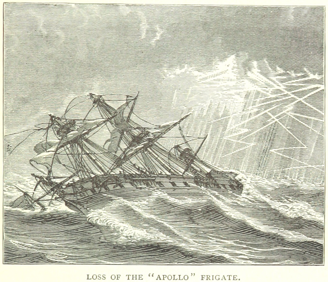 The frigate HMS Apollo sinks on 2 April 1804.